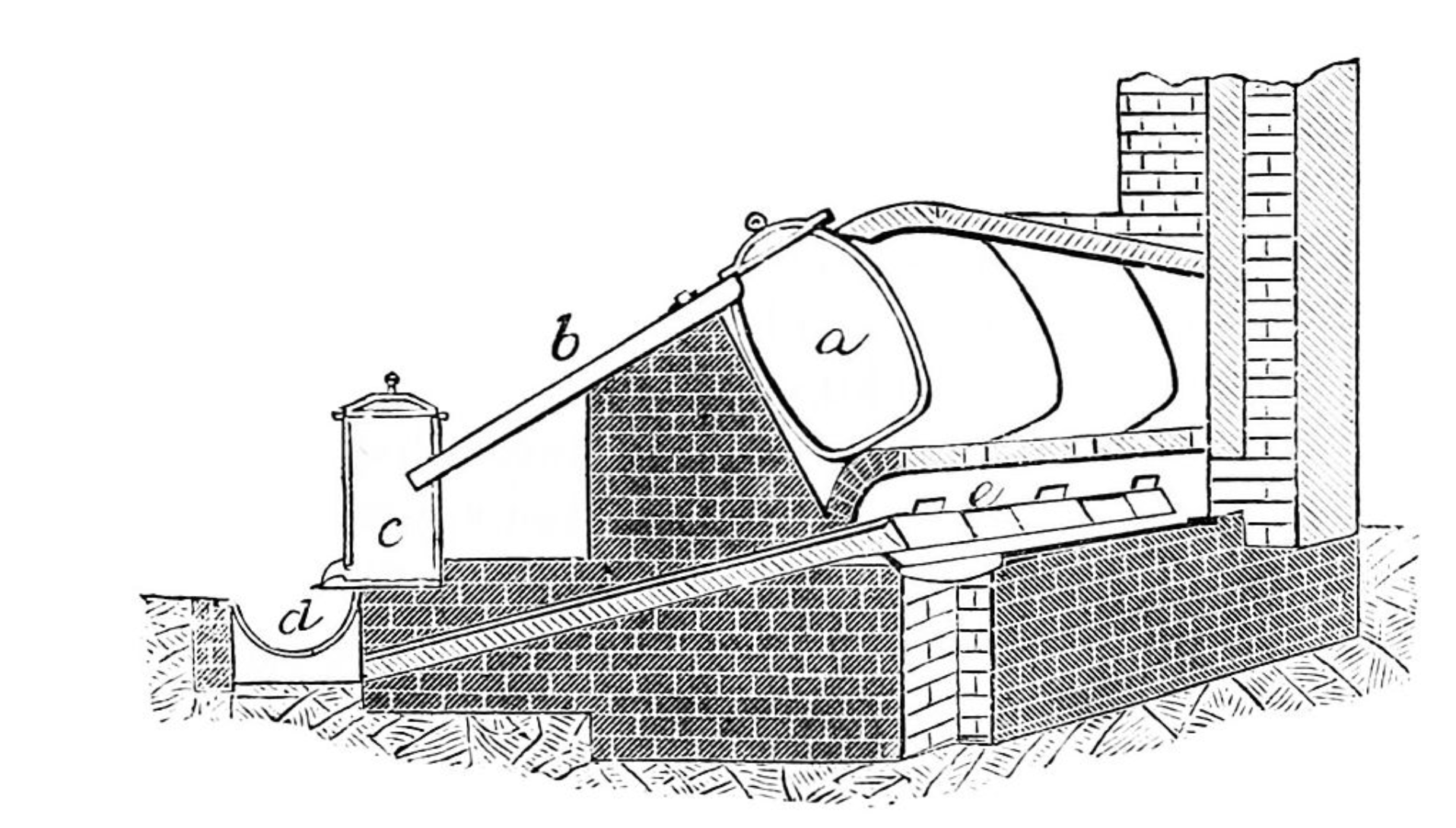 doppione was one of the earliest successful structures designed to remedy this state of things. It consists of a set (generally six) of cast-iron pots, holding about thirty to forty gallons each, arranged in a gallery furnace